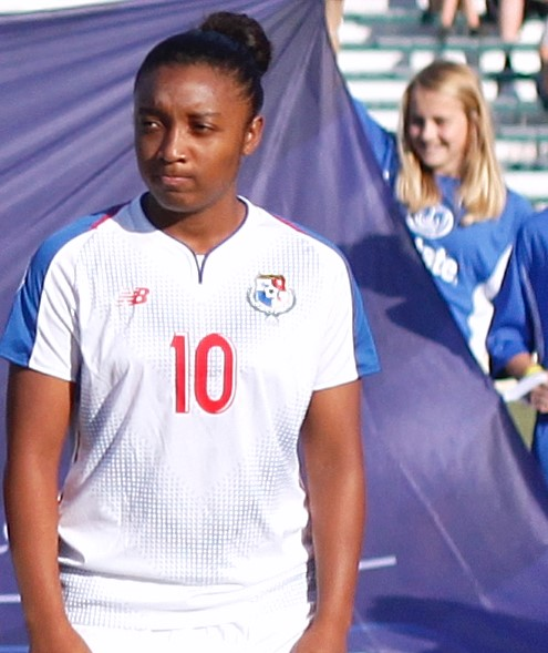 Marta Cox representing Panama against Trinidad and Tobago at the 2018 CONCACAF Women's Championship on Oct. 4, 2018.